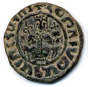 Hetum I